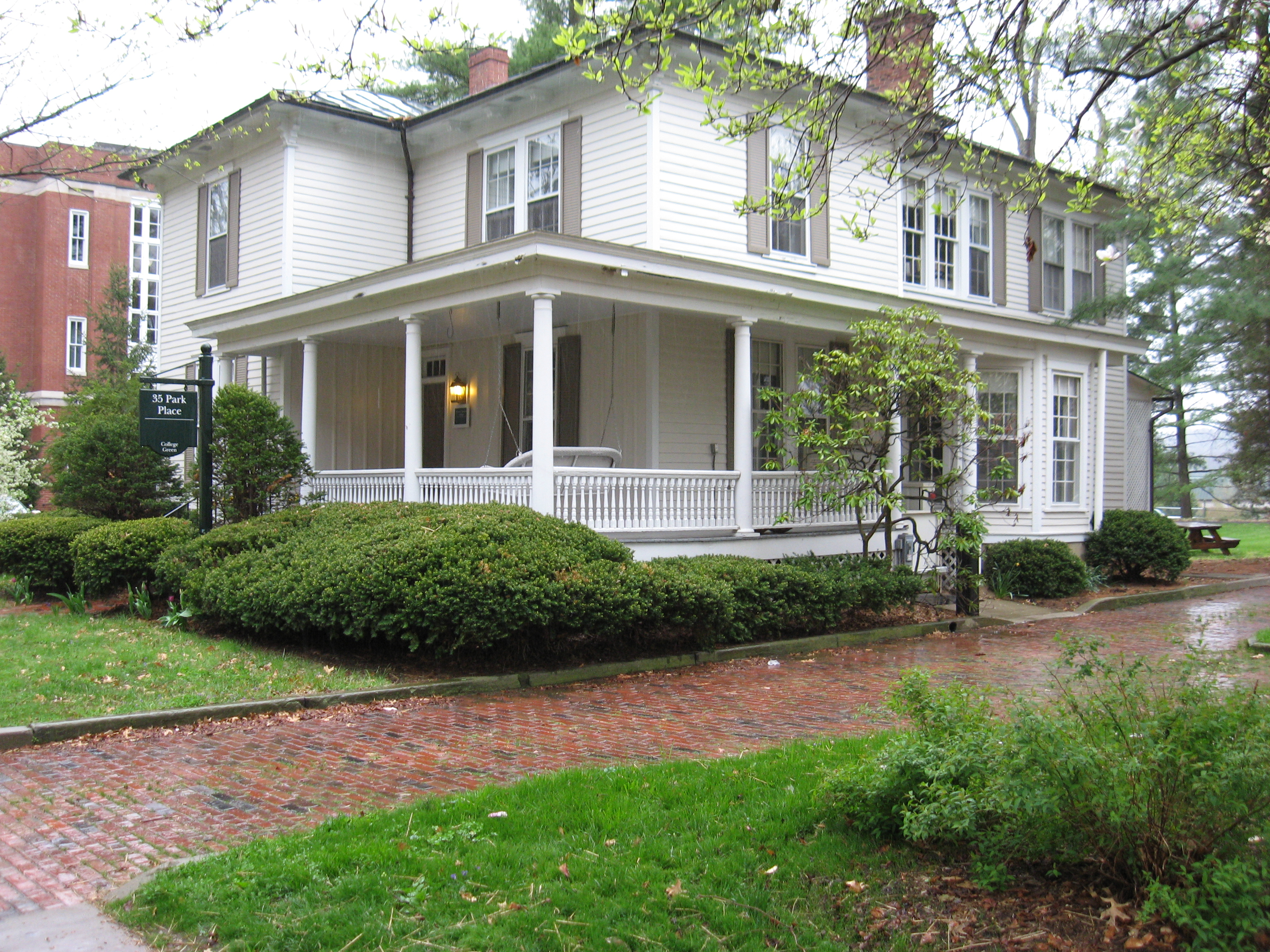 Exterior of 35 Park Place Avenue, home of the Honors Tutorial College at Ohio University (Athens, Ohio, USA)